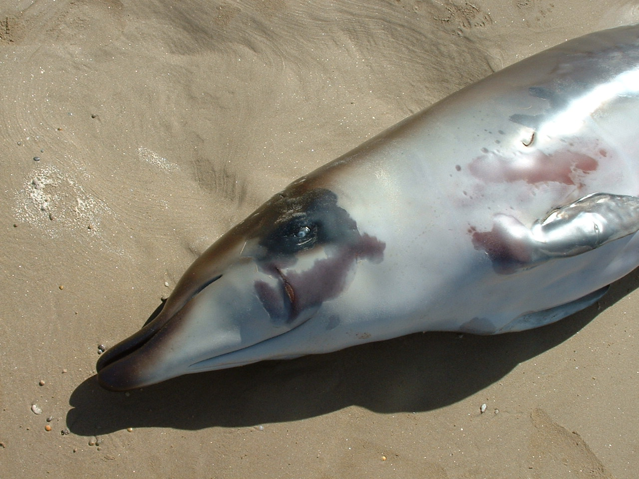 Head of a neonatal Andrews' Beaked Whale beachwashed and newly deceased at Ocean Beach, near Strahan, Tasmania. The identity was established by DNA analysis.